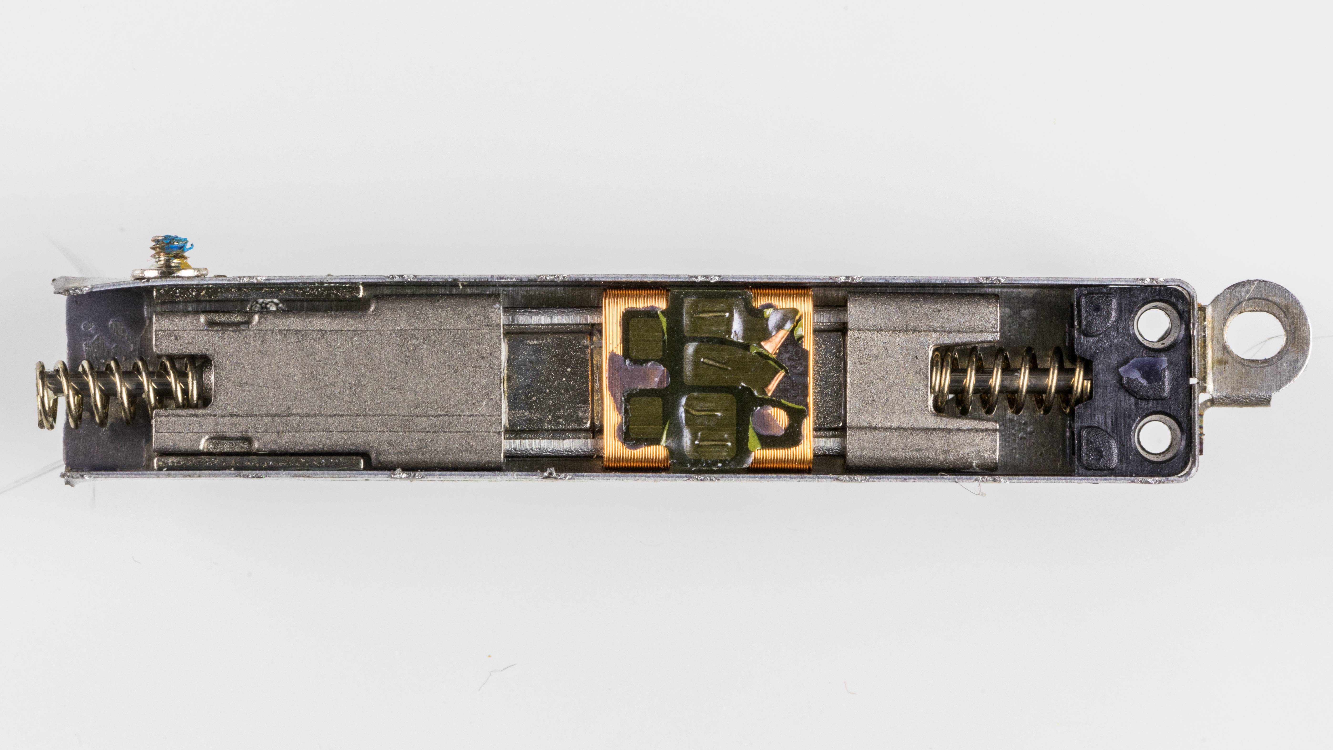 IPhone 6s - Taptic Engine - opened